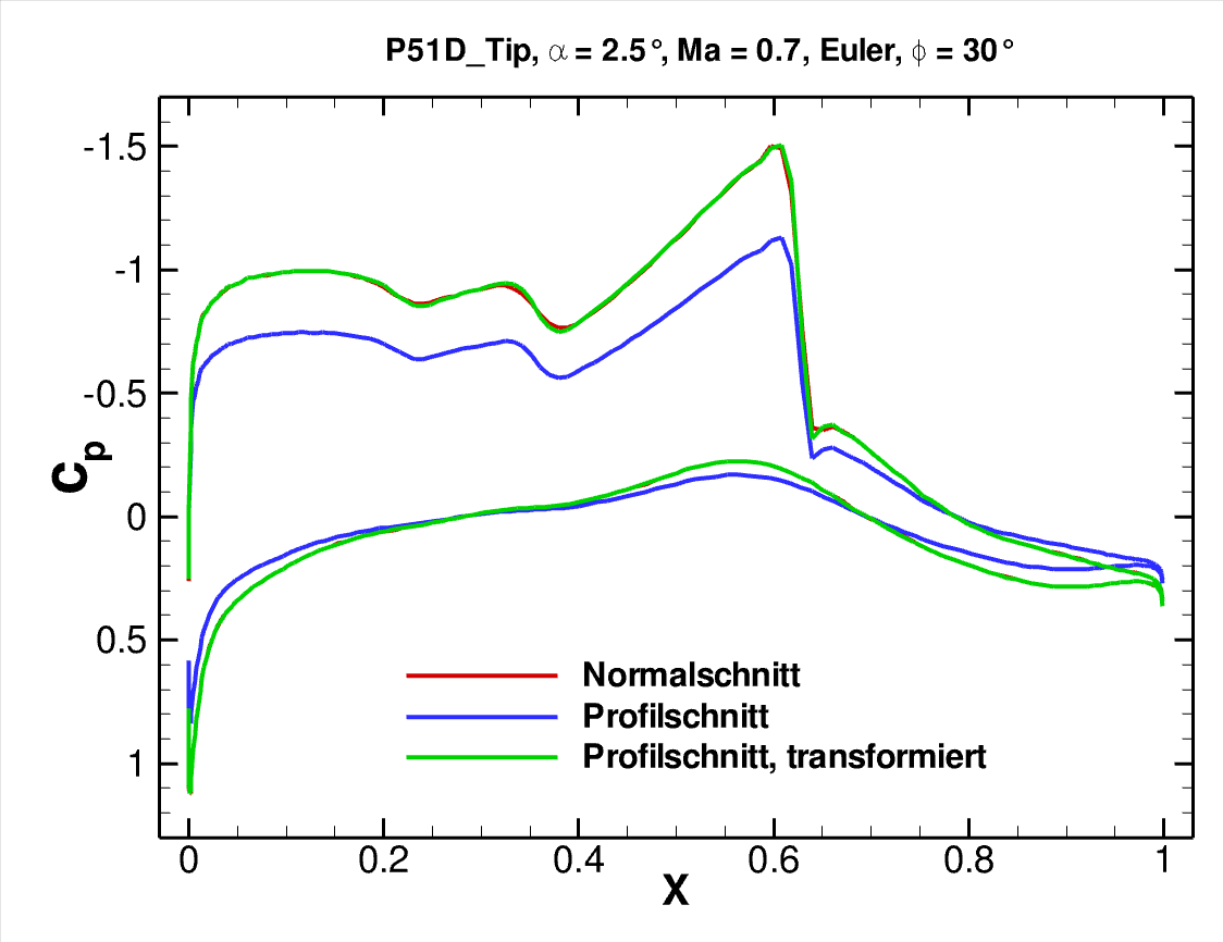 Pressure on the surface of a swept wing